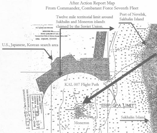 This is the Task Force 71 After Action Report map for the Joint U.S.-South Korea-Japanese Search operations in international waters for KAL 007, The report, authored by Commander Walter T. Piotti, and map are now unclassified, released, and have been distributed to various public bodies, including the American Association for Families of the Victims of KAL 007. The printed legend is original to the map and explanatory arrows (clearly distinguishable) are provided by Bert Schlossberg.